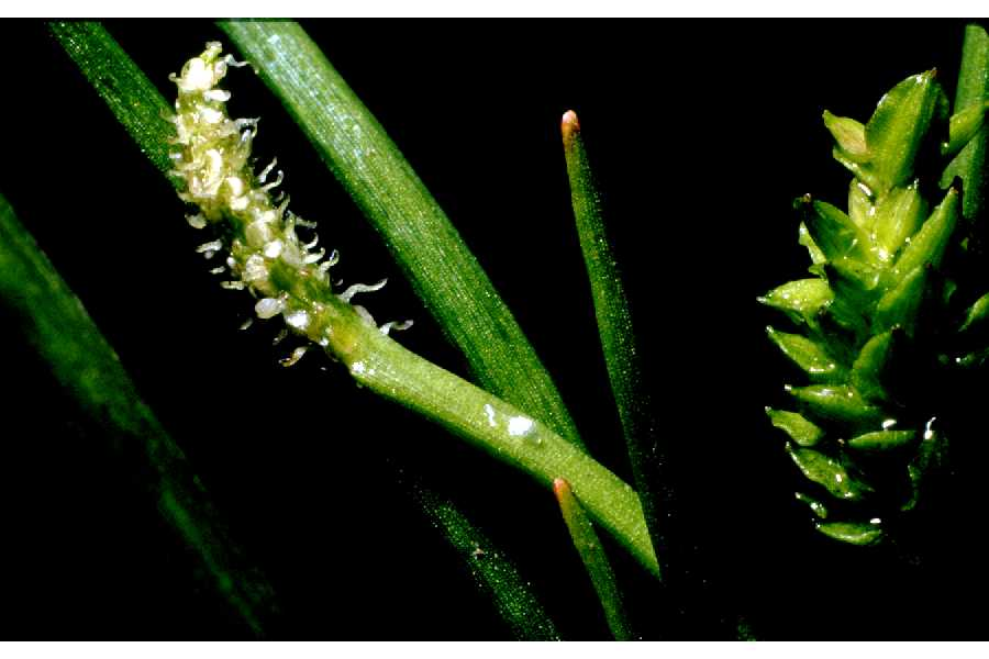 Lilaea scilloides from William & Wilma Follette. USDA NRCS. 1992. Western wetland flora: Field office guide to plant species. West Region, Sacramento. Courtesy of USDA NRCS Wetland Science Institute.